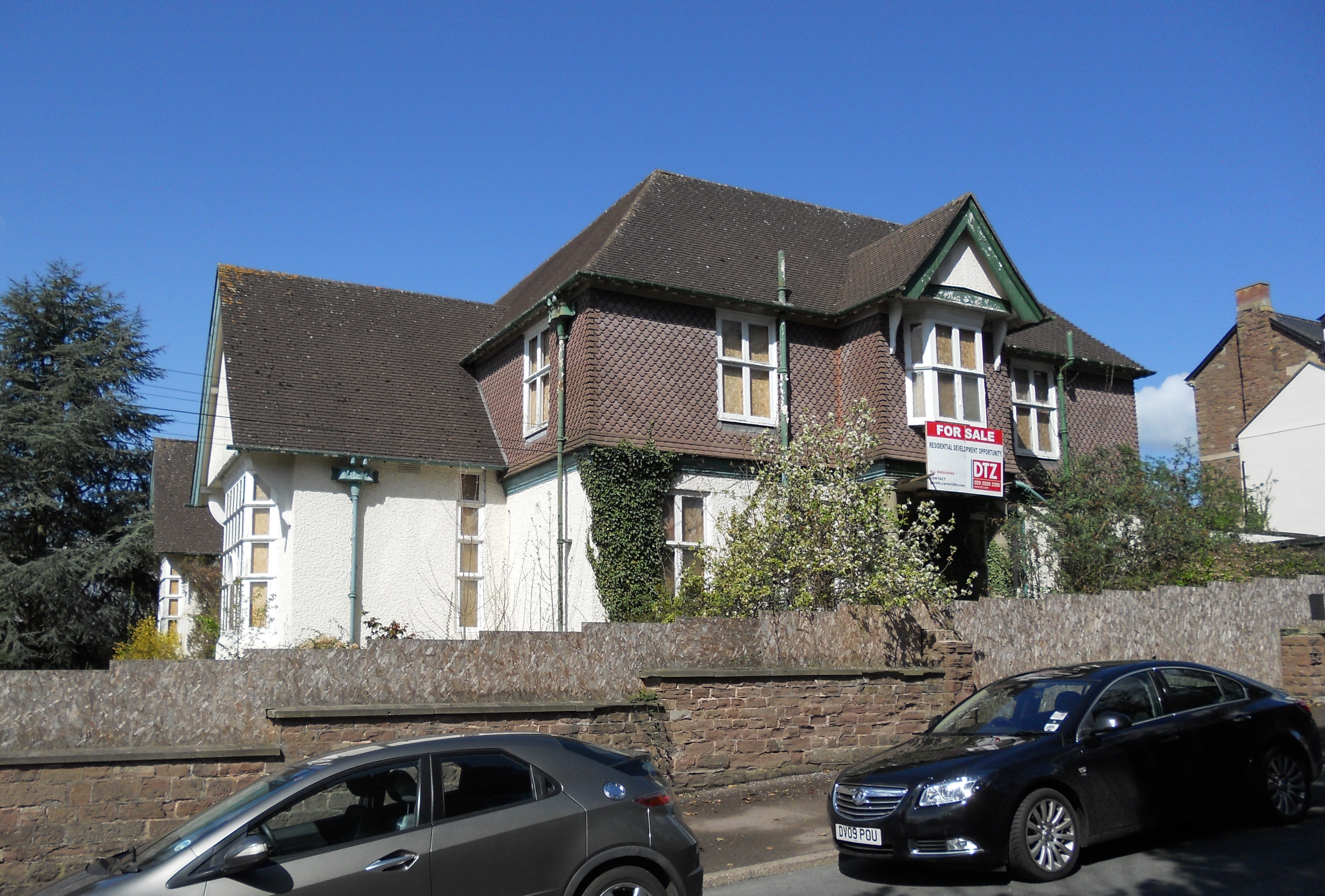 Former Monmouth Cottage Hospital Hereford Road